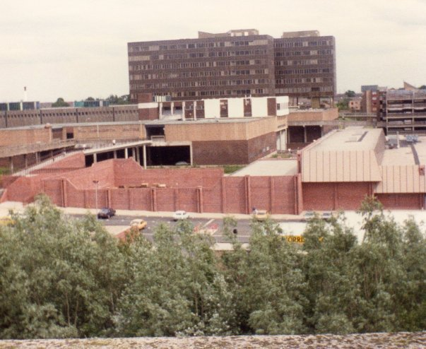 The Killingworth Towers prior to demolition - 1986/7